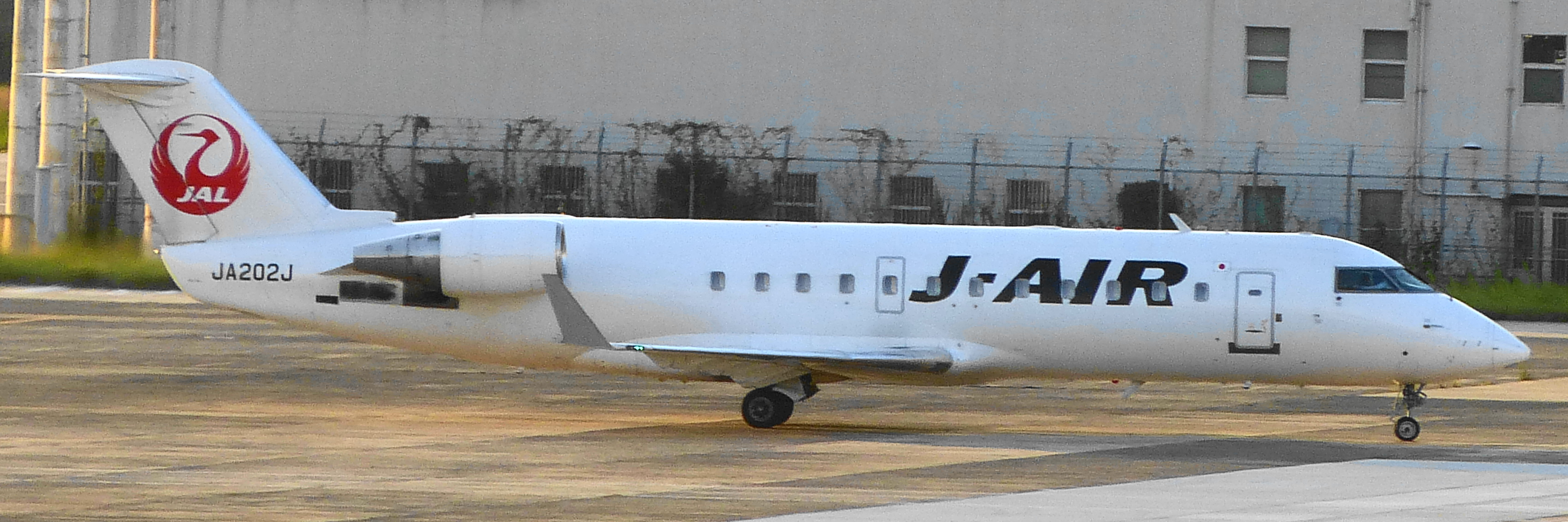 J-AIR CRJ200 arrived at Itami airport, Japan